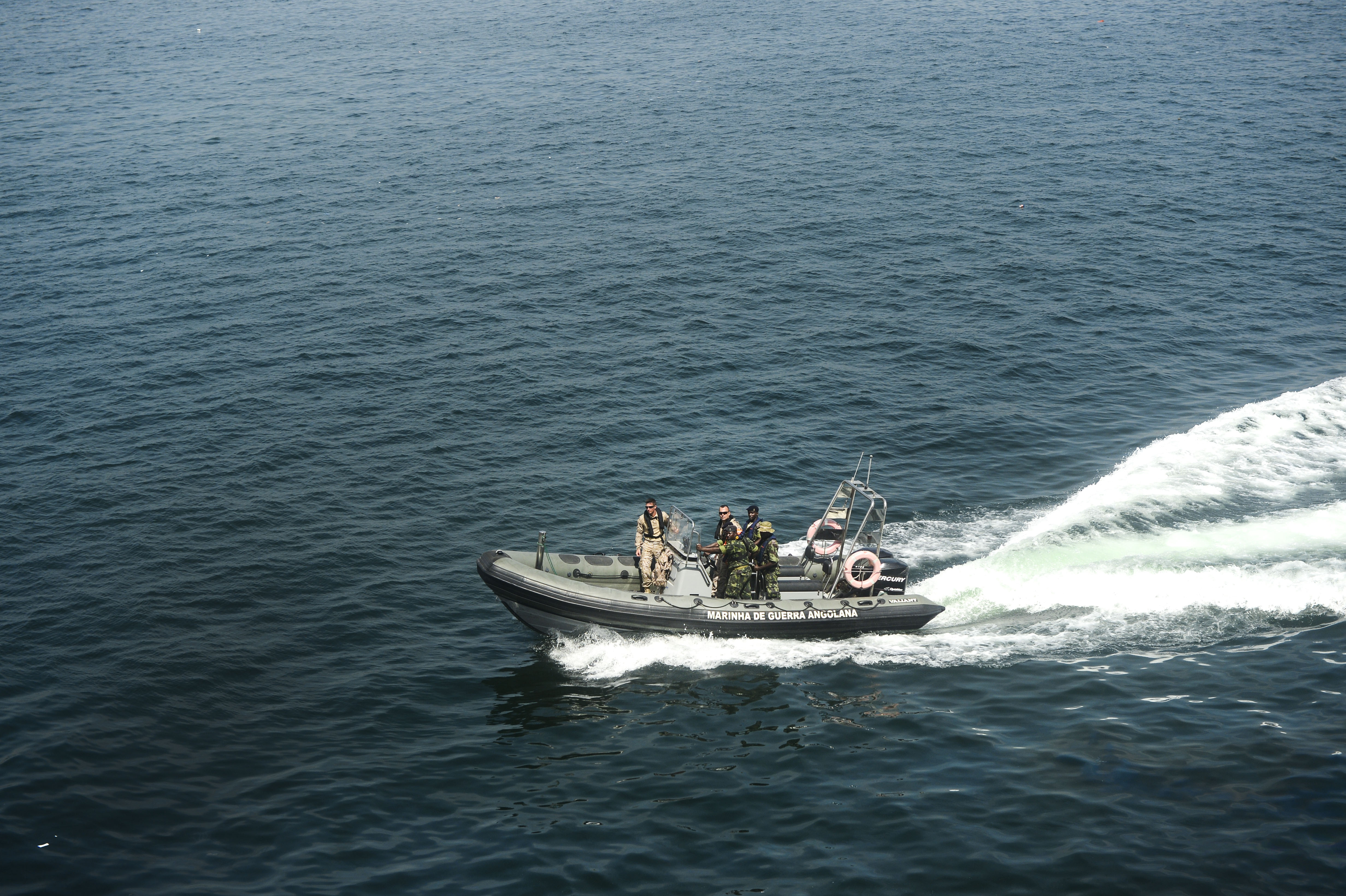 150306-N-RB579-076 LUANDA, Angola (March 6, 2015) U.S. Sailors embarked aboard the Military Sealift Command joint high-speed vessel USNS Spearhead (JHSV 1) and Spanish marines, working alongside Angolan military personnel, conduct small boat operations in the port of Luanda, Angola. Spearhead is on a scheduled deployment to the U.S. 6th Fleet area of responsibility in support of the international collaborative capacity-building program Africa Partnership Station. (U.S. Navy photo by Mass Communication Specialist 1st Class Joshua Davies/Released)